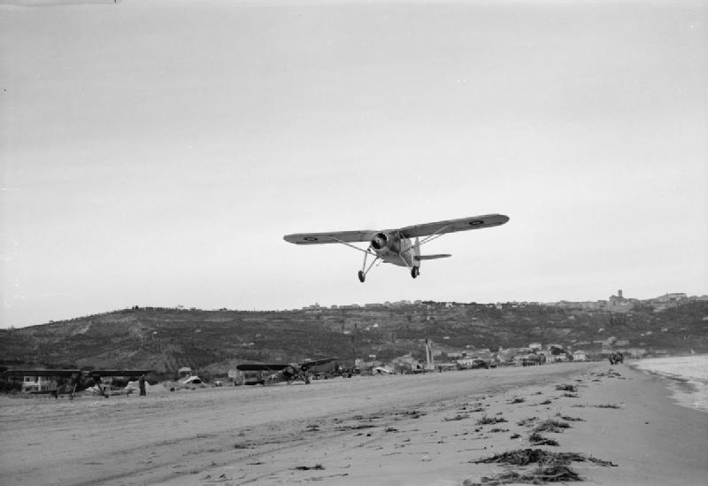 Royal Air Force- Italy, the Balkans and South-east Europe, 1942-1945. A Fairchild Argus of the Desert Air Force Communication Flight, takes off from the beach at Vasto, Italy, which served as the landing ground for the Forward Headquarters of the Desert Air Force, based there from December 1943 to March 1944. Parked to the left of the beach is the Fiesler Storch flown by the Air Officer Commanding DAF, Air Vice-Marshal H Broadhurst, with Vultee-Stinson Vigilants, also of the DAF Communications Flight.